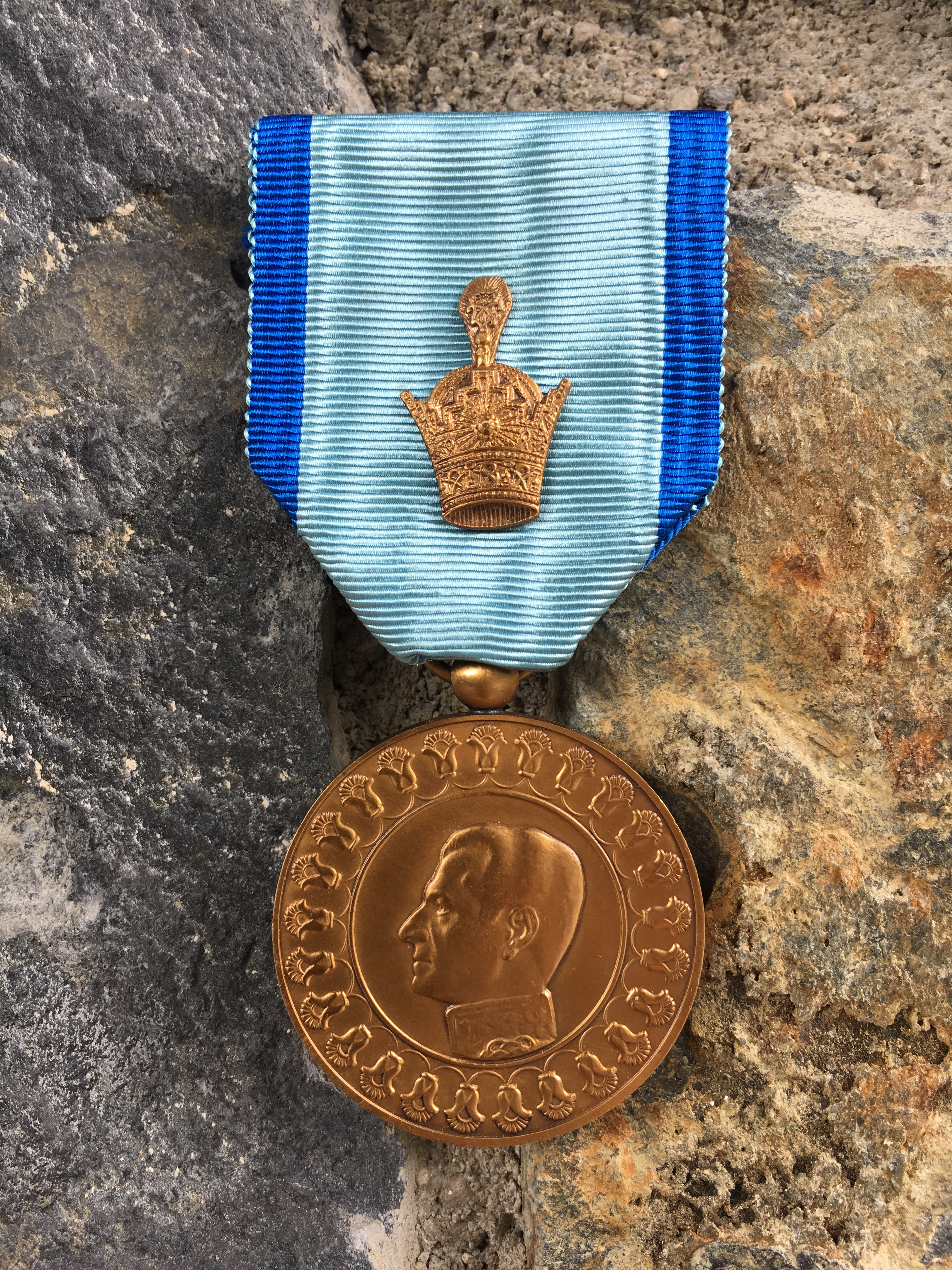 2,500 year celebration of the Persian Empire medal.